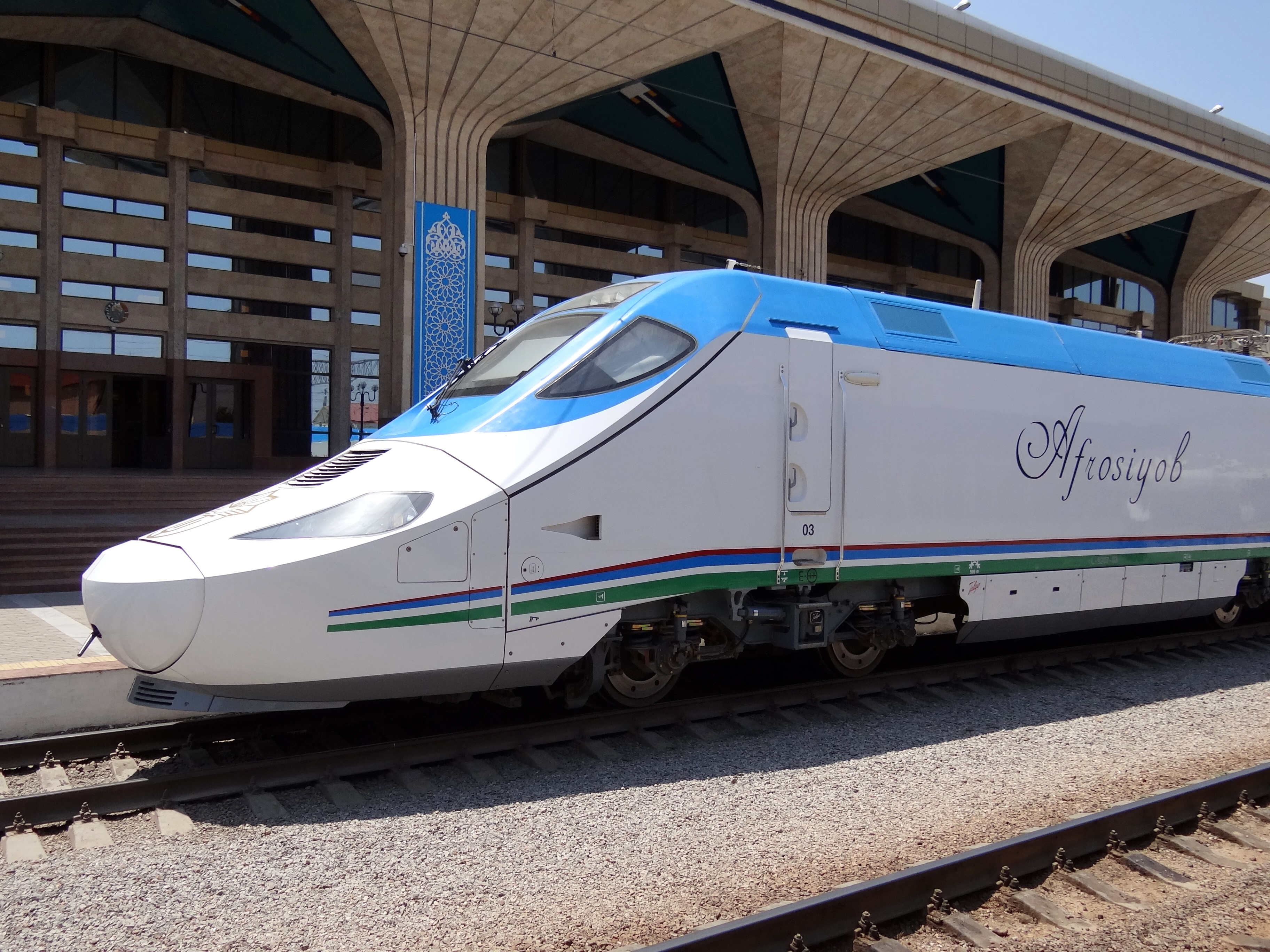 Afrosiyob Express Train in Station - Samarkand - Uzbekistan